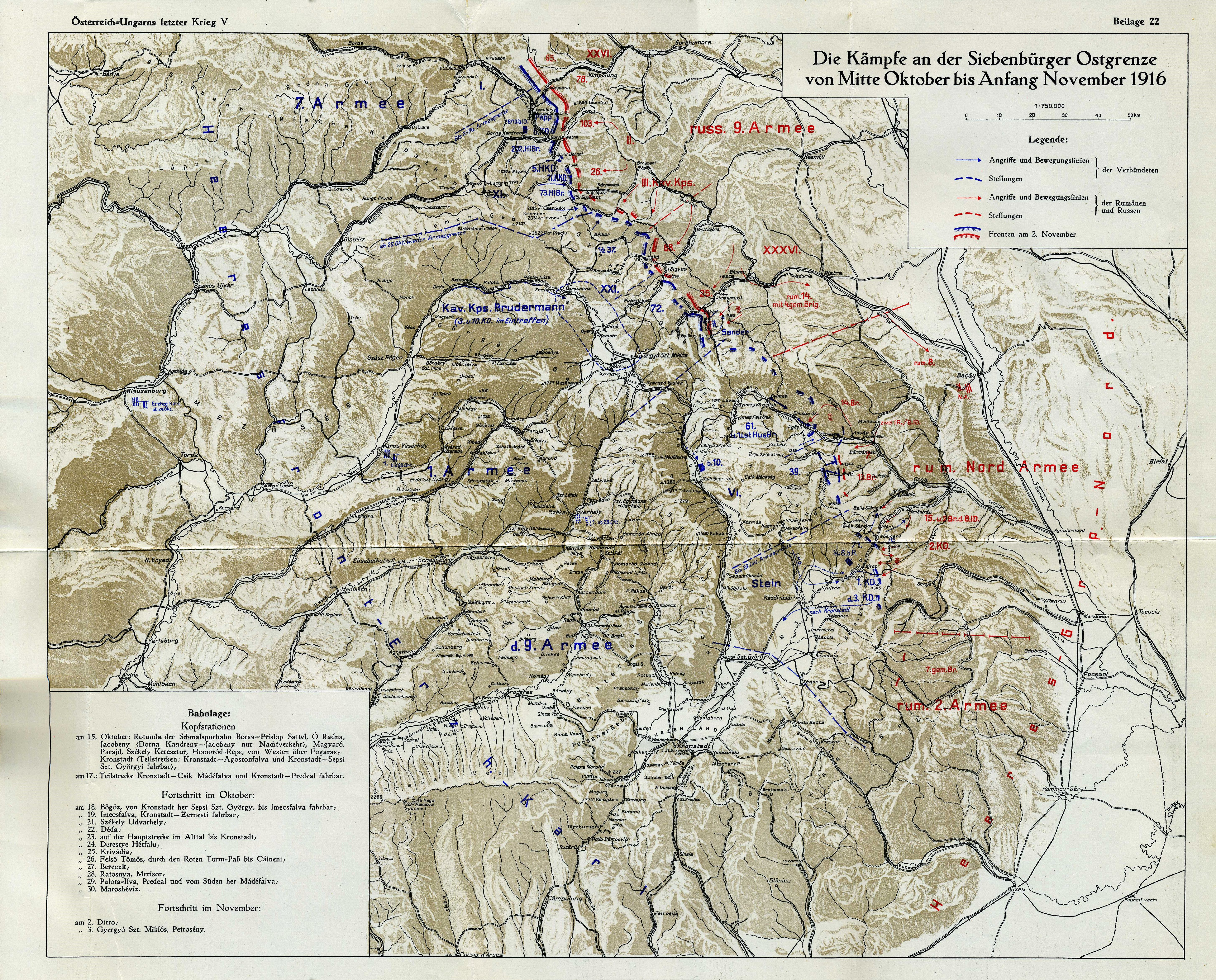 Romanian Front in WWI - The first and second batle of Oituz, 1916